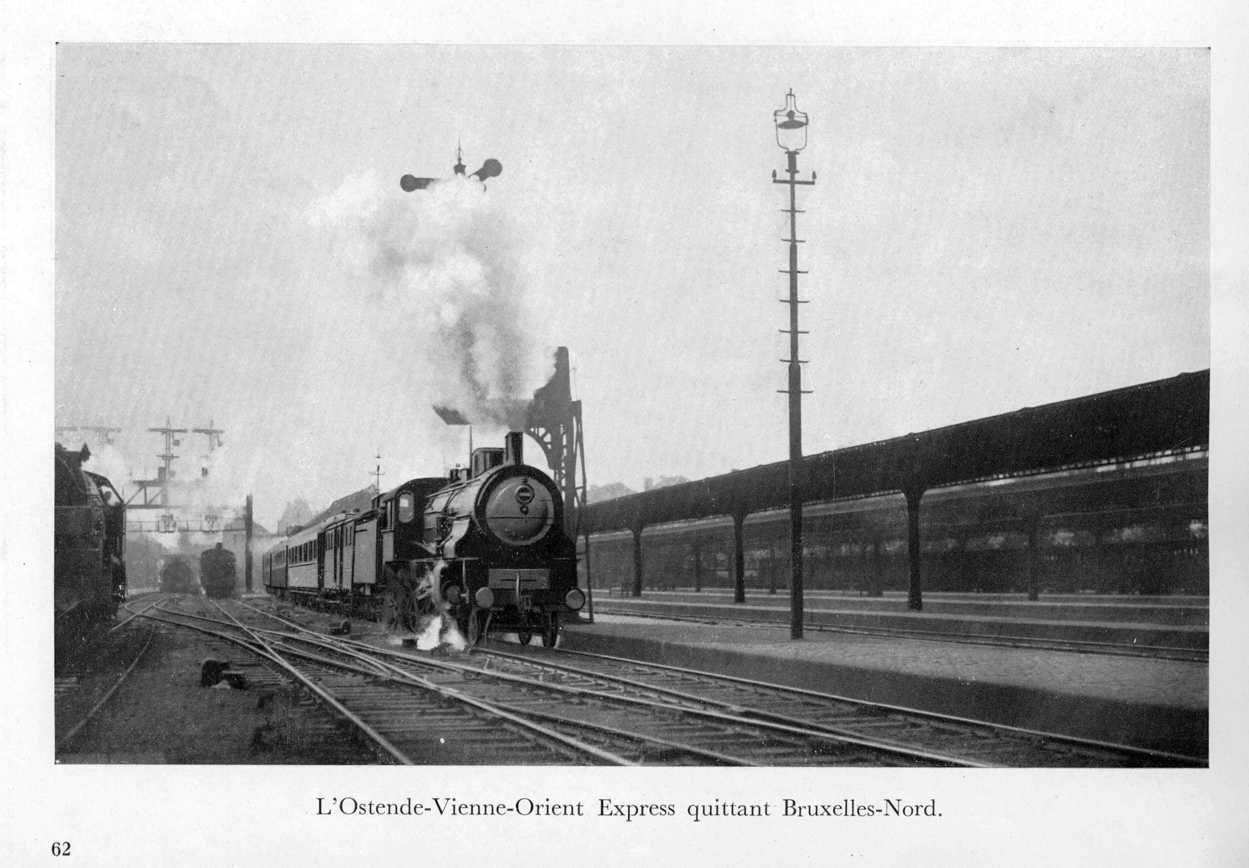 Ostend Wien Orient express leaving Gare du Nord in the 1920s